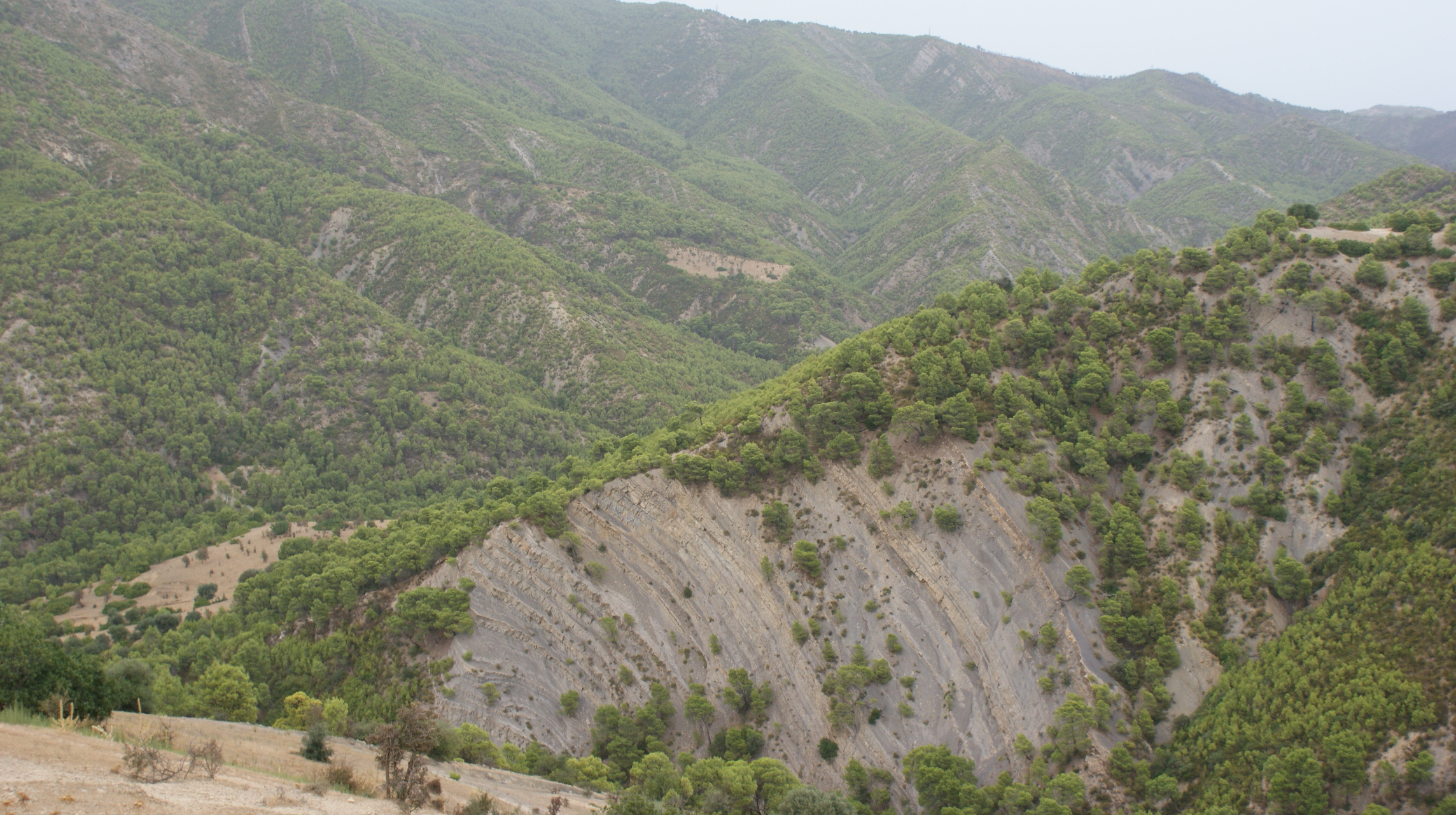 An overview of Lemtarih in Ouled Moumen - Fej el Gamh